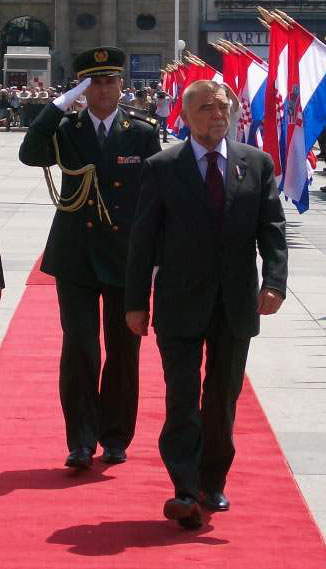 Adjuntant_to_the_Croatian_President